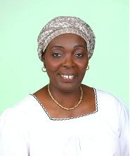 2010 International Women of Courage Award